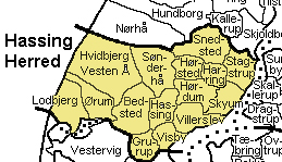 Hassing Herred, Thisted Amt, Denmark Source: Map by Svend-Erik Christiansen